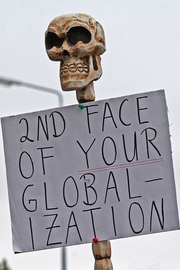 Rostock, June 2nd 2007: Protest against the meeting of the Group of Eight in Heiligendamm 2007